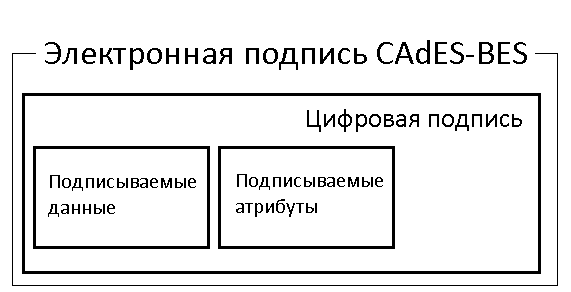 CAdES-BES illustration